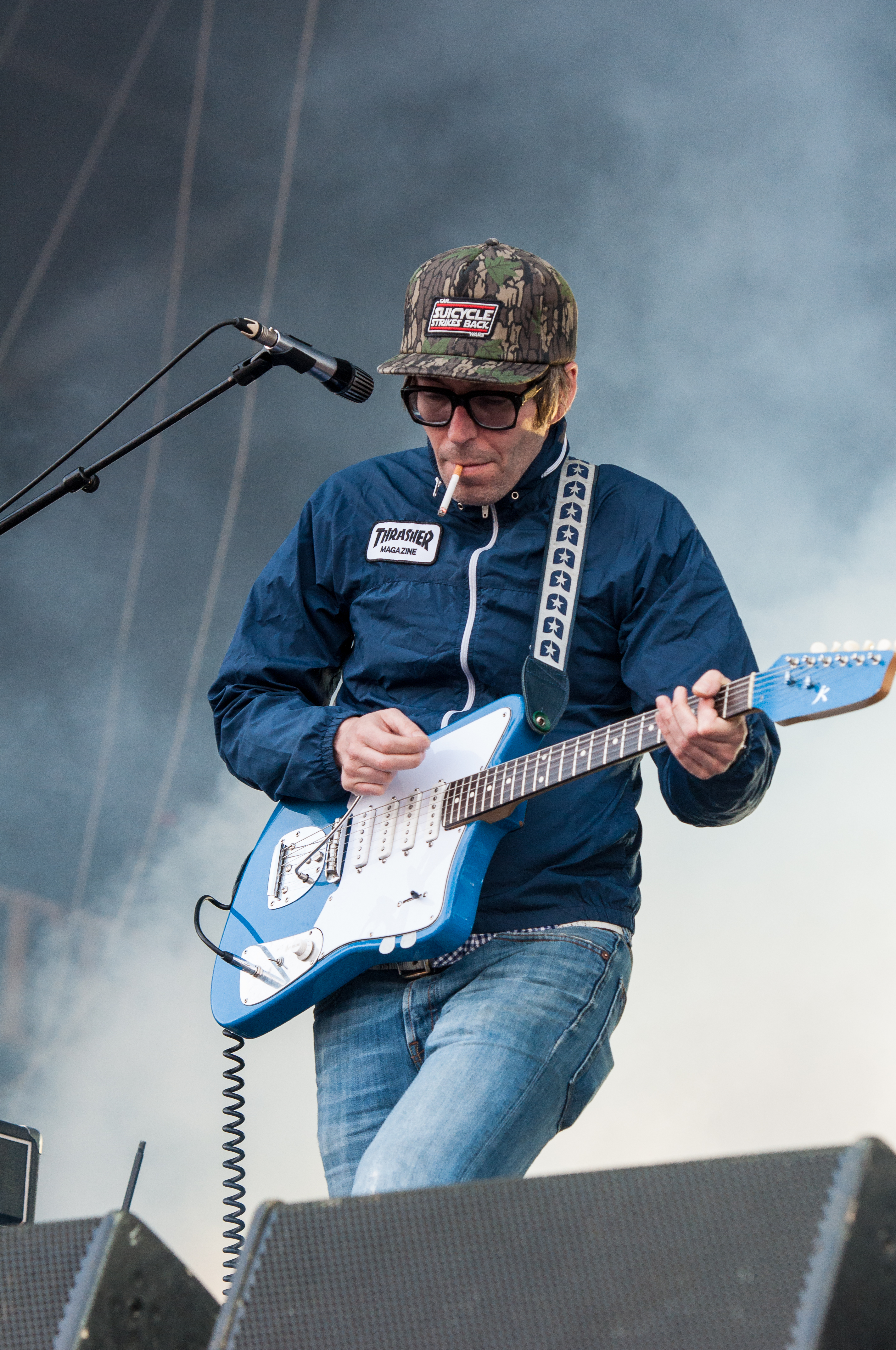 Tocotronic Gitarrist Rick McPhail bei Rock am Ring 2013